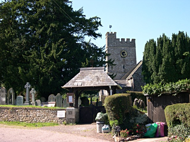 St Nicholas' parish church and lychgate, Combe Raleigh, Devon, seen from the east